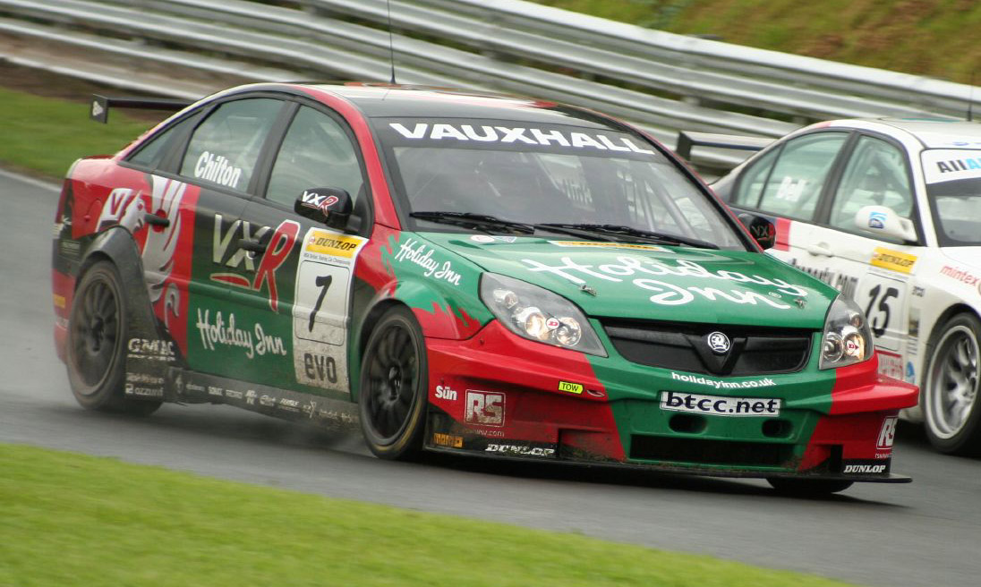 Tom Chilton driving Vauxhall Vectra at Oulton Park.